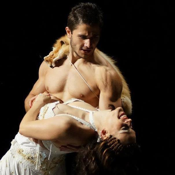 Devi Khajishvili performing The Knight in the Panther's Skin by a 12th century Georgian poet Shota Rustaveli.